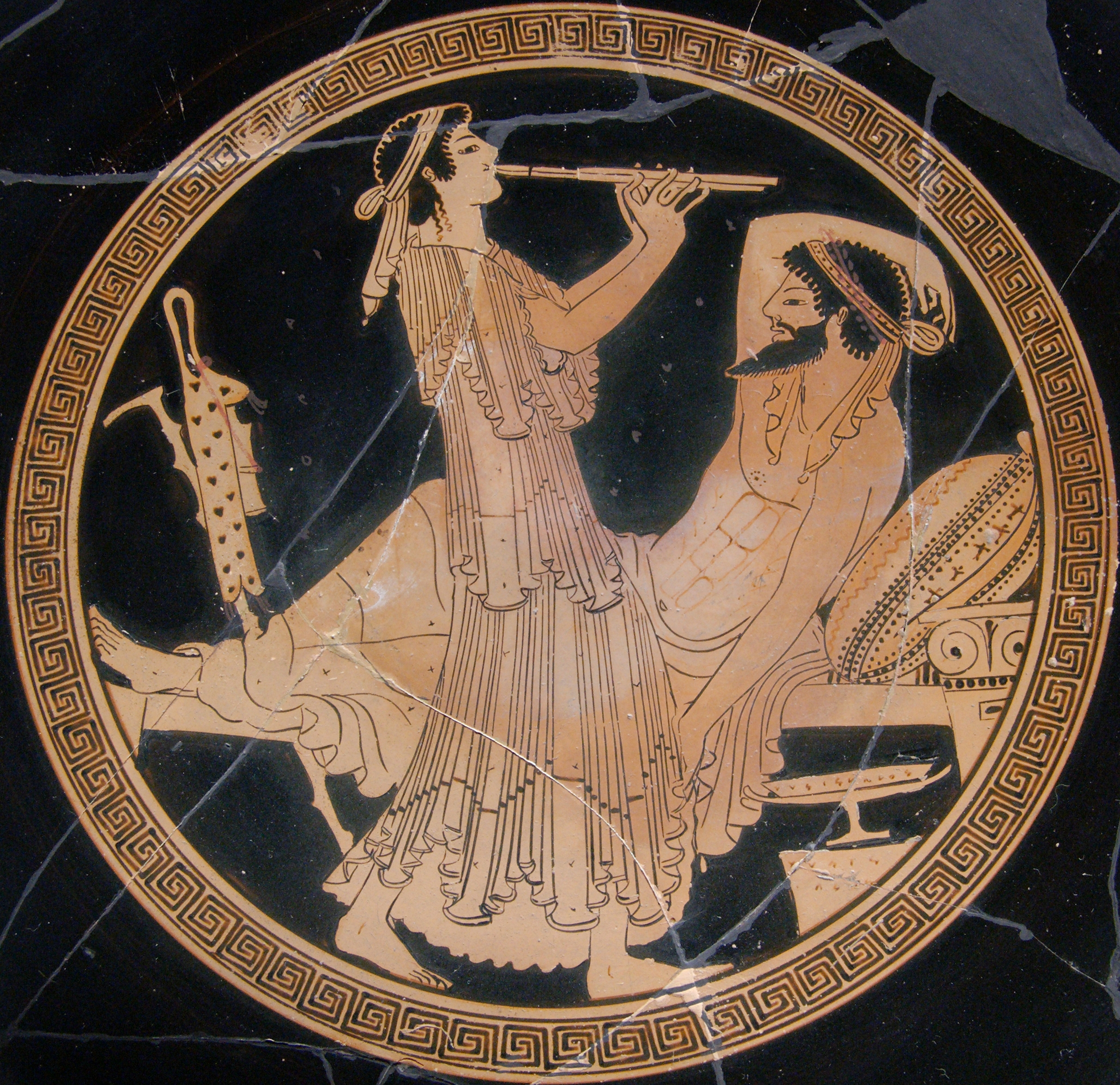 Banqueter and musician, kalos inscription ("Ho pais kalos" "The boy is handsome"). Tondo from an Attic red-figure cup, ca. 490 BC. Found in Vulci.